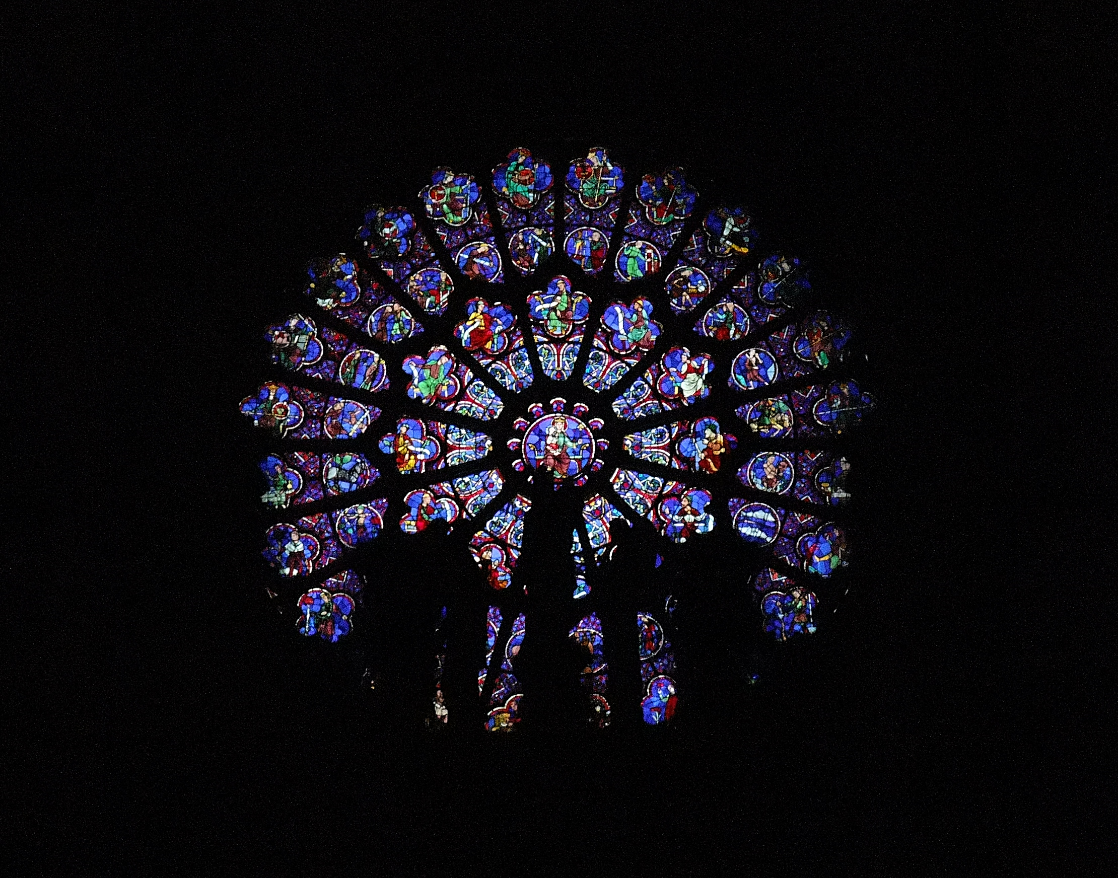 Stained glass rose window, facade of Notre-Dame de Paris cathedral, Paris. France .